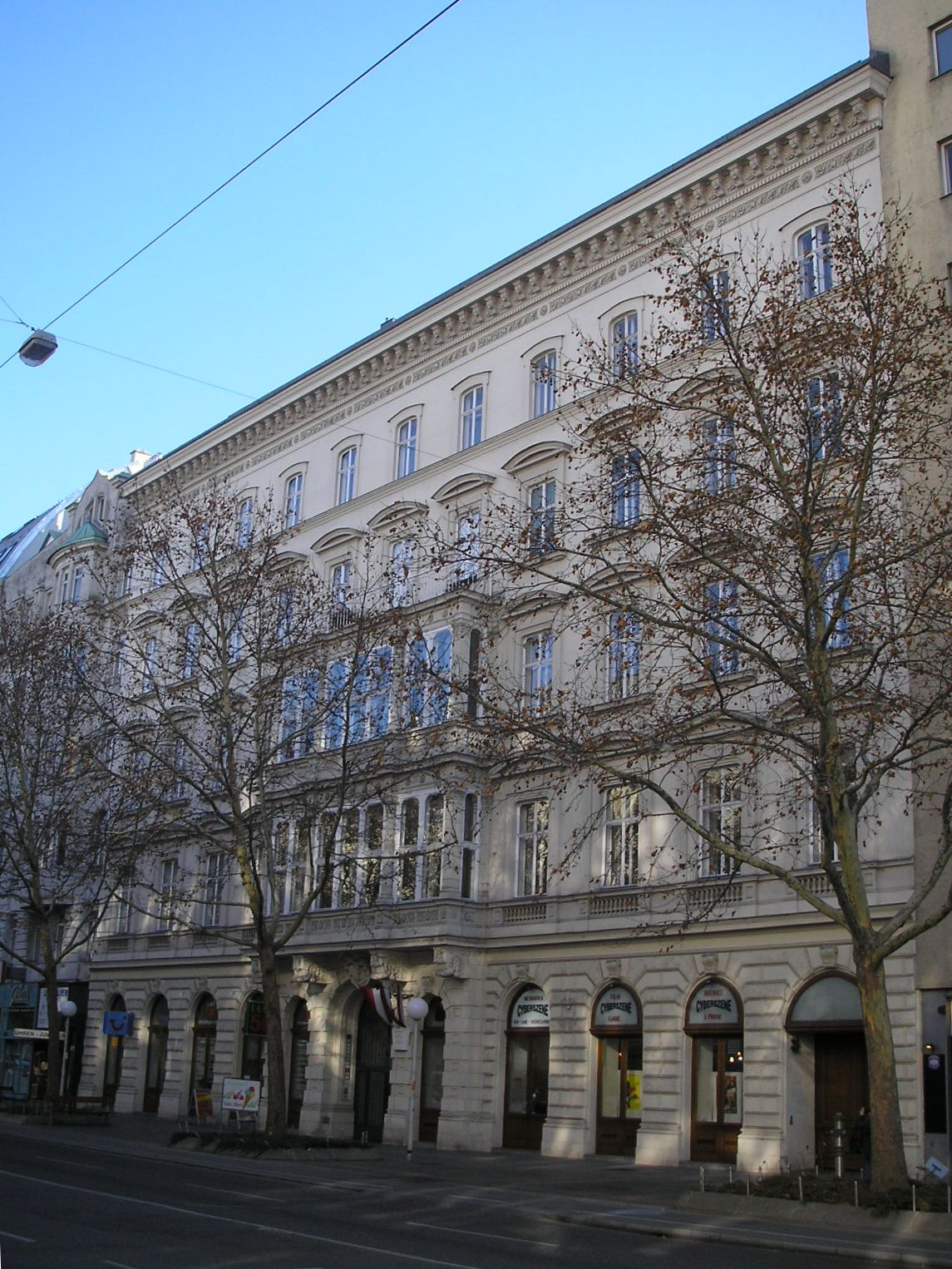 Palais Rohan in Vienna, at Praterstraße in the II. district Leopoldstadt.